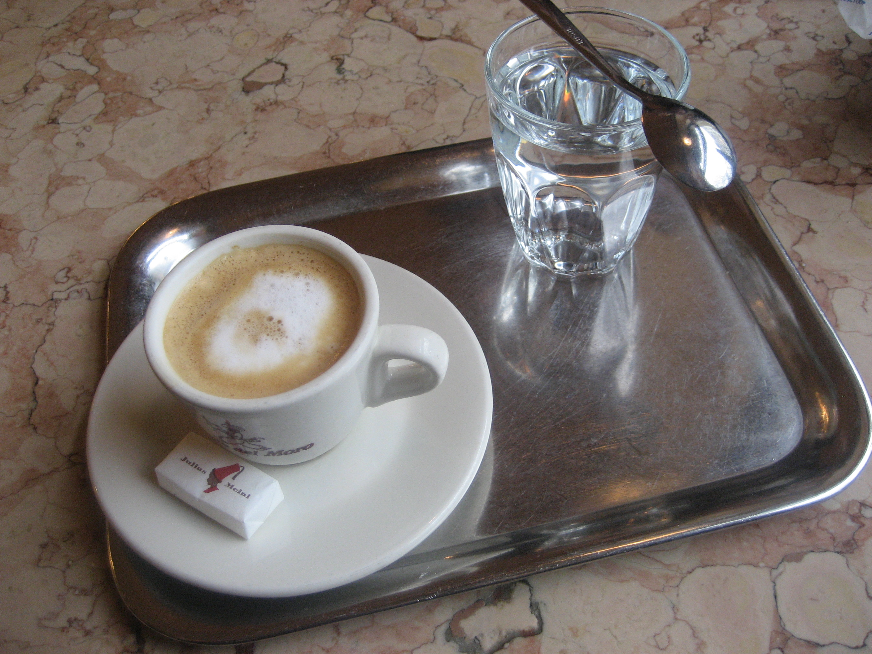 Coffee as served in a coffee house in Vienna